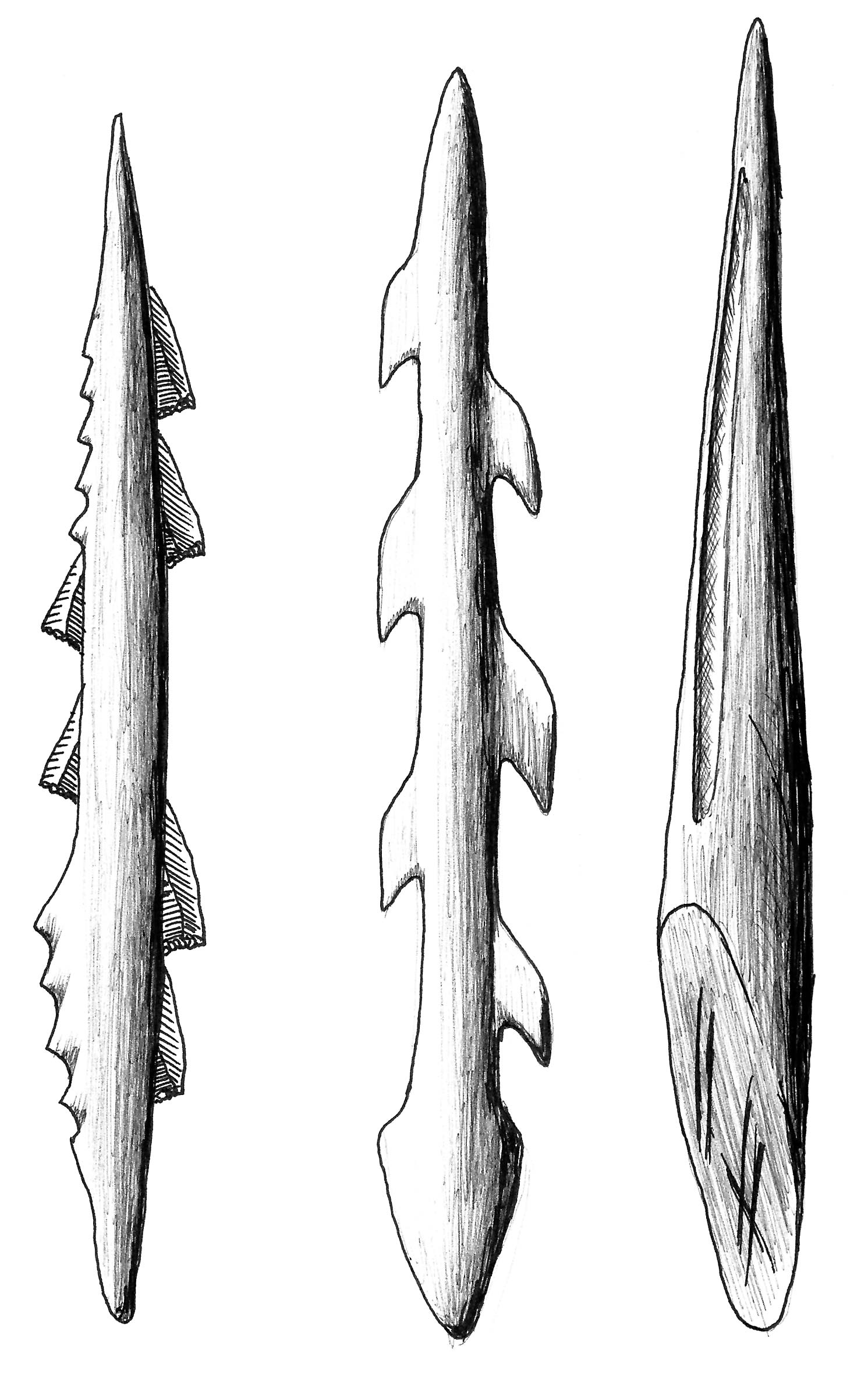 Bone projecttiles of Magdalenian period: Bone harpoon with microliths used as barbs, bone harpoon with two lines of barbs; bone point of spear